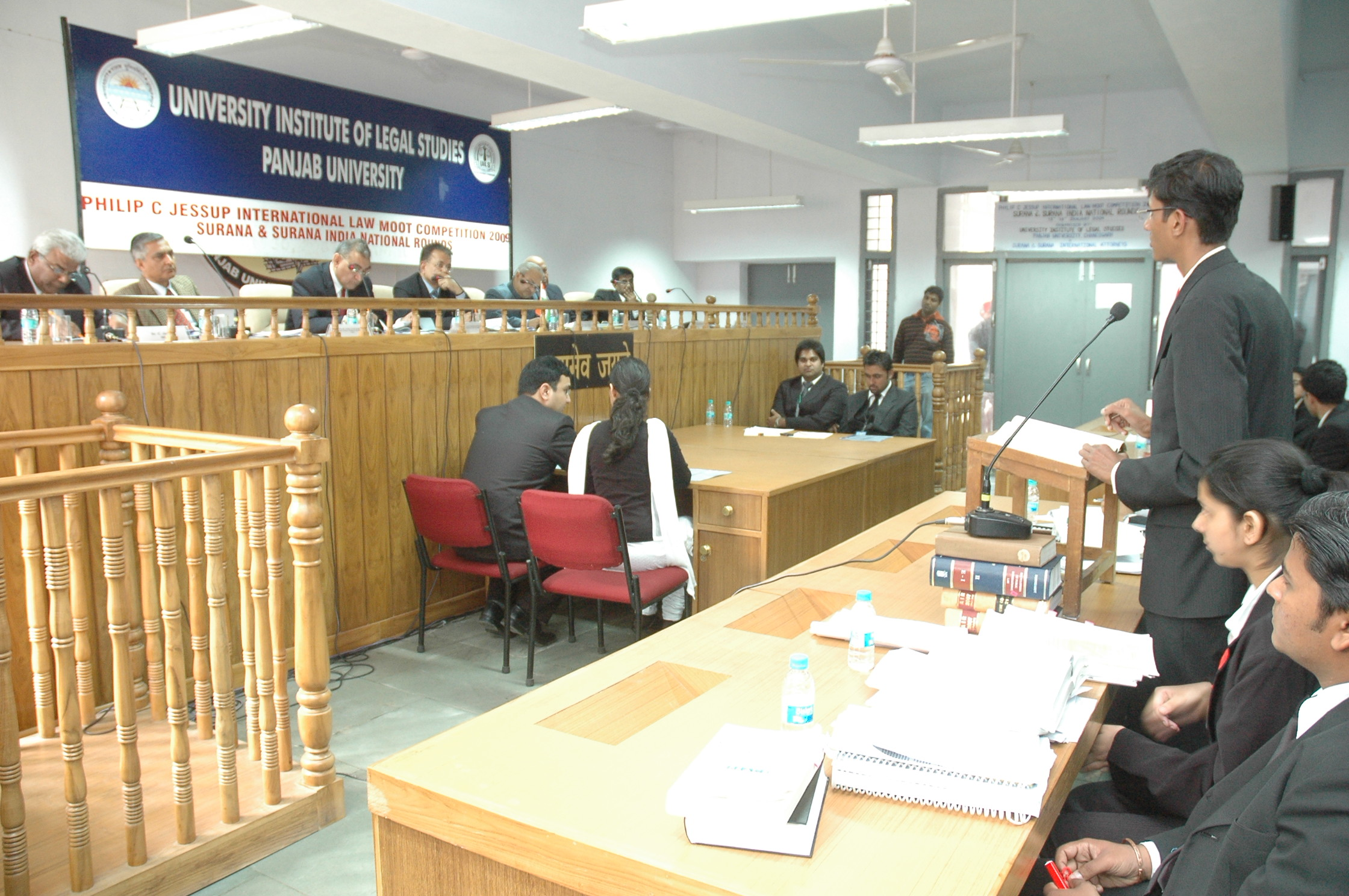 Hon’ble Mr. Justice Dalveer Bhandari, Judge, Supreme Court of India Hon’ble Mr. Justice Markandey Katju, Judge, Supreme Court of India Hon’ble Mr. Justice G.S. Singhvi, Judge, Supreme Court of India Hon’ble Mr. Justice T.S. Thakur, Chief Justice, Punjab & Haryana High Court Hon’ble Mr. Justice J.L. Gupta (Retd.), Chief Justice, Kerala High Court Dr. Manoj Sinha, Director, Indian Institute of International Law Dr. C Jayaraj, Former Director General of Indian Institute of International Law